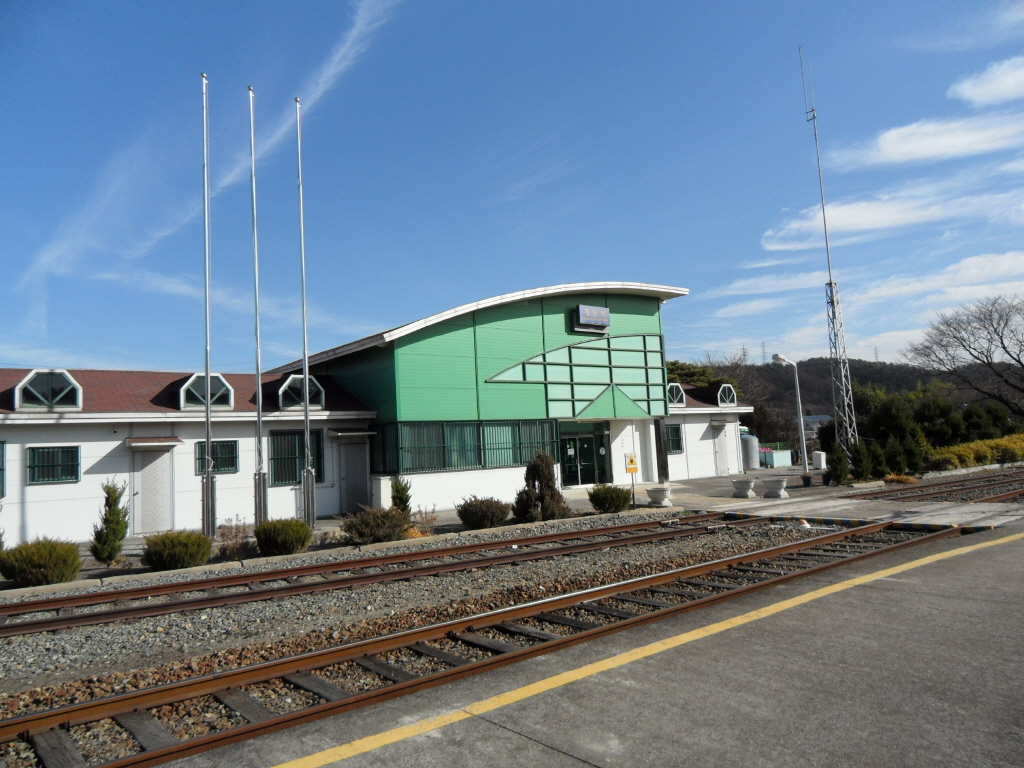 Korail Gaeyang Station